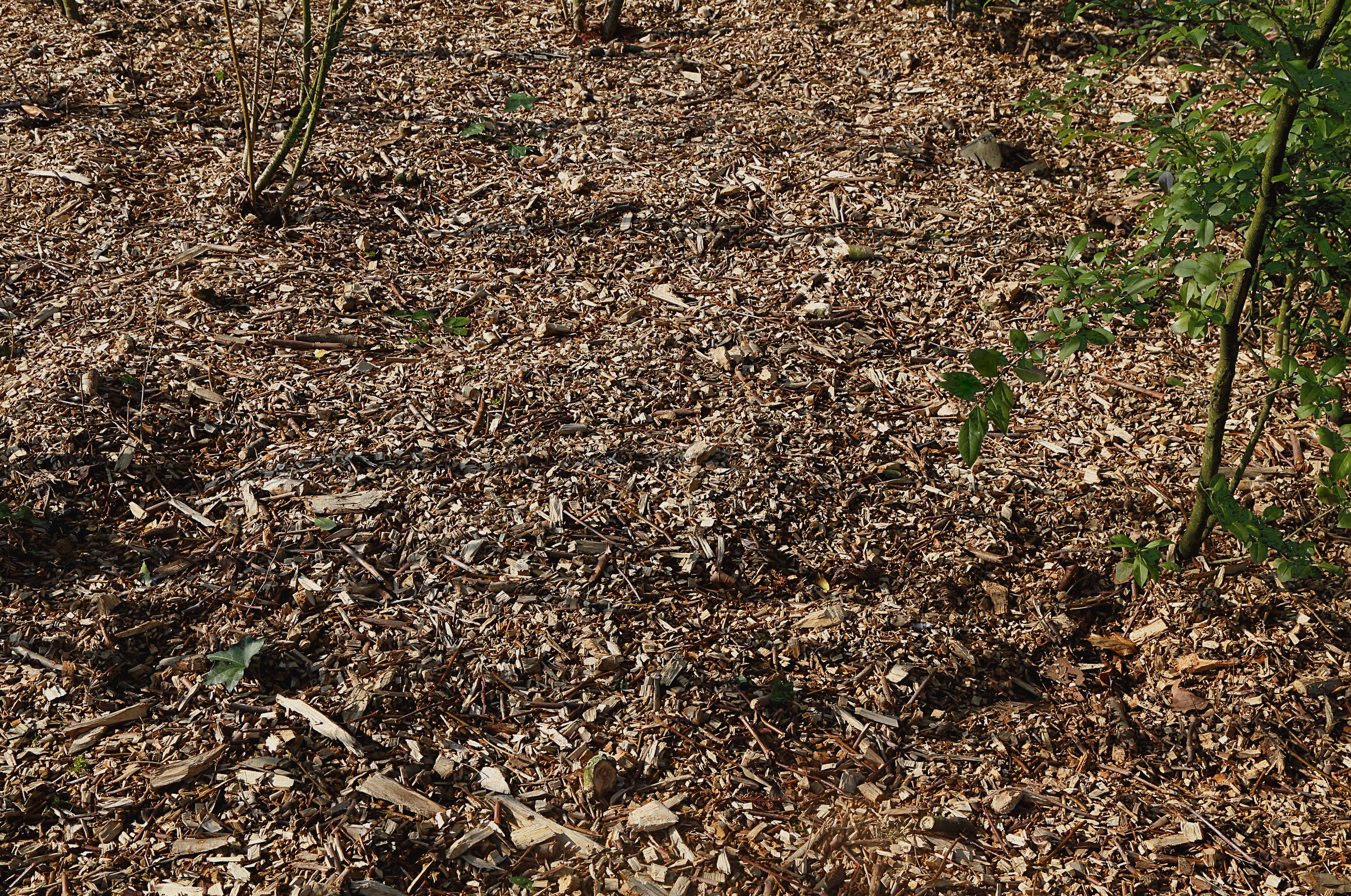 Ground covered with mulch of crushed wood. Picture taken in Belgium.